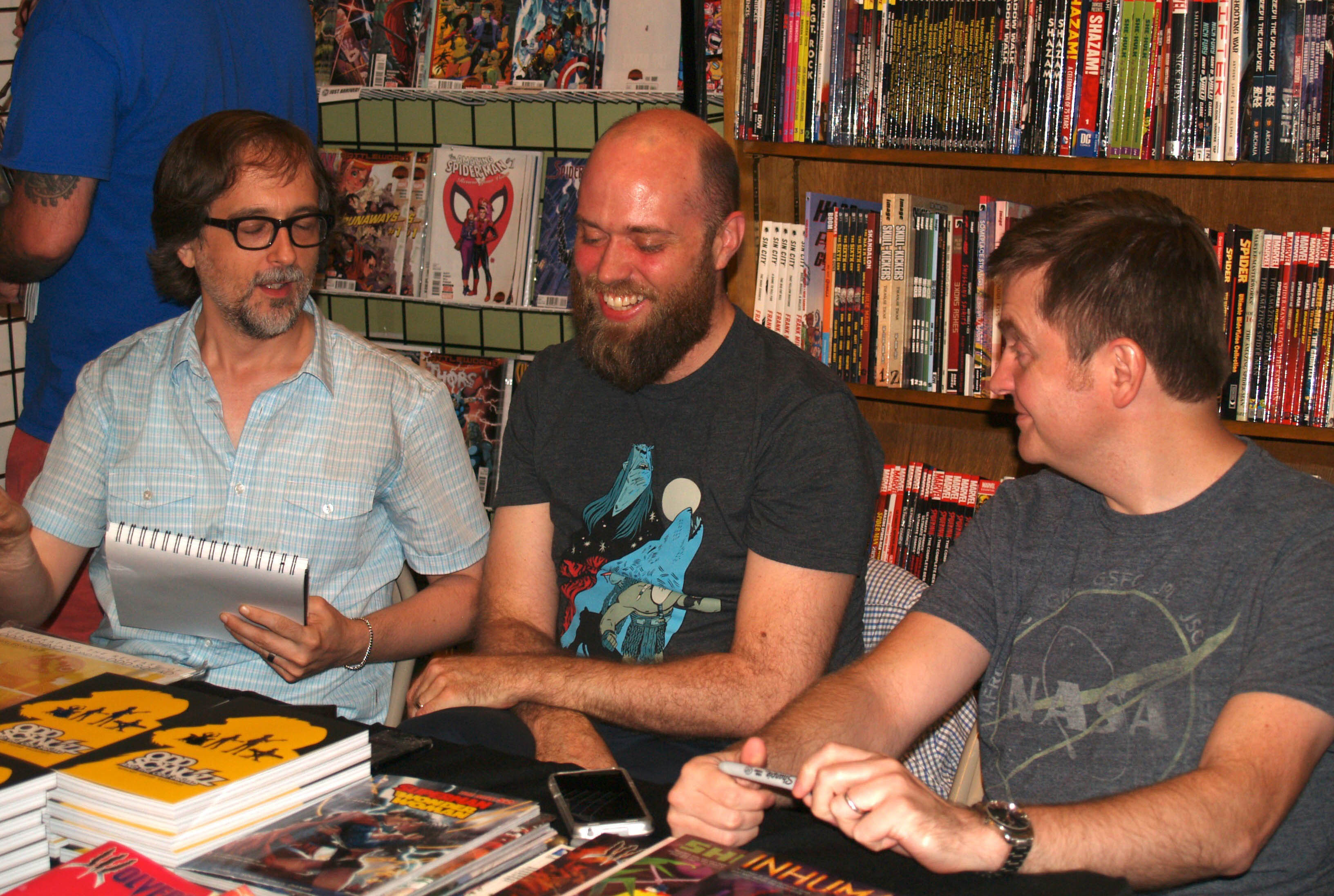 From left to right: Comics writer/artist Joe Infurnari, author and comics writer Jeffrey Burandt and writer/attorney Charles Soule at a June 24, 2015 book signing at Jim Hanley's Universe in Manhattan. This photo was created by Luigi Novi. It is not in the public domain, and use of this file outside of the licensing terms is a copyright violation.